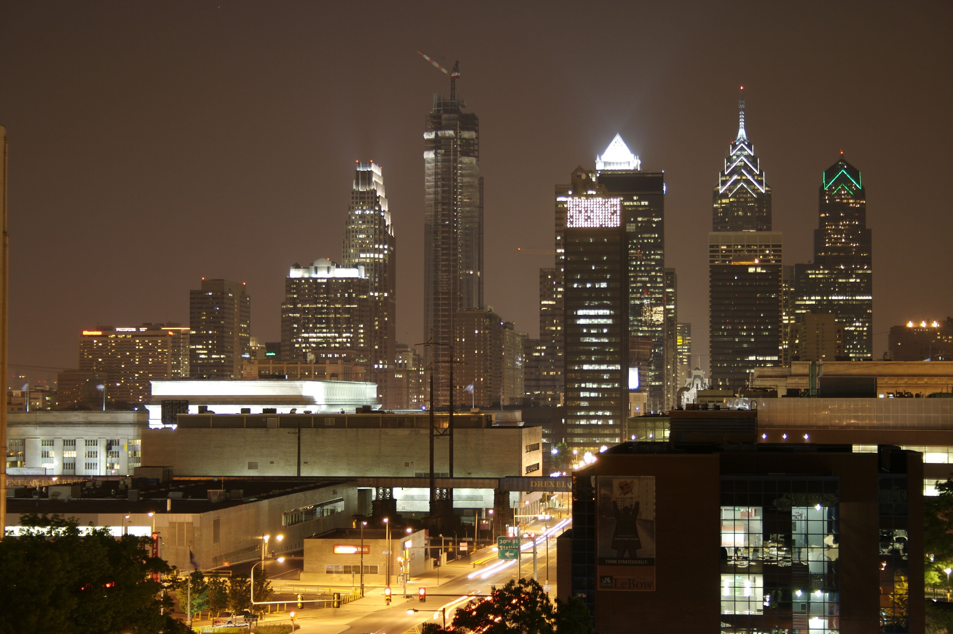 A night time view of the Philly skyline as seen from Drexel University's campus.